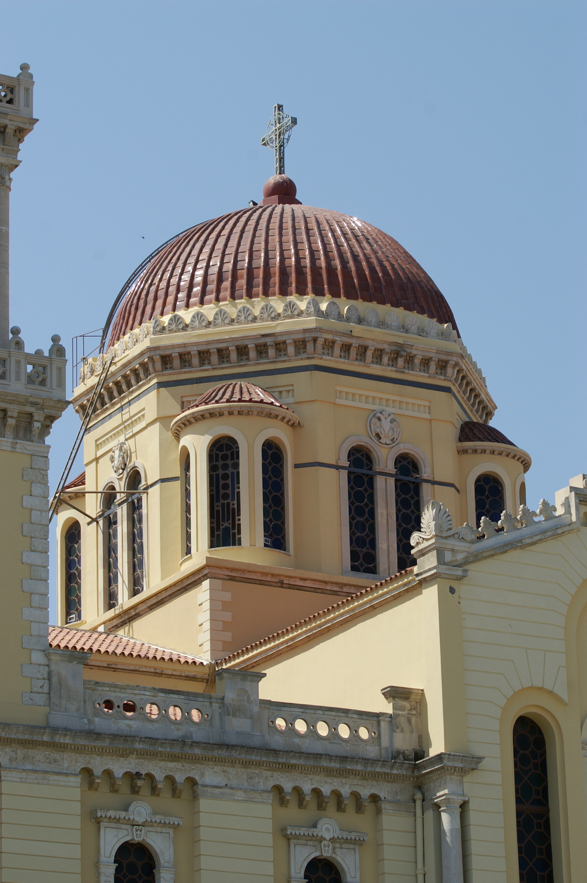 Agios Minas, protector of the city of Heraklion